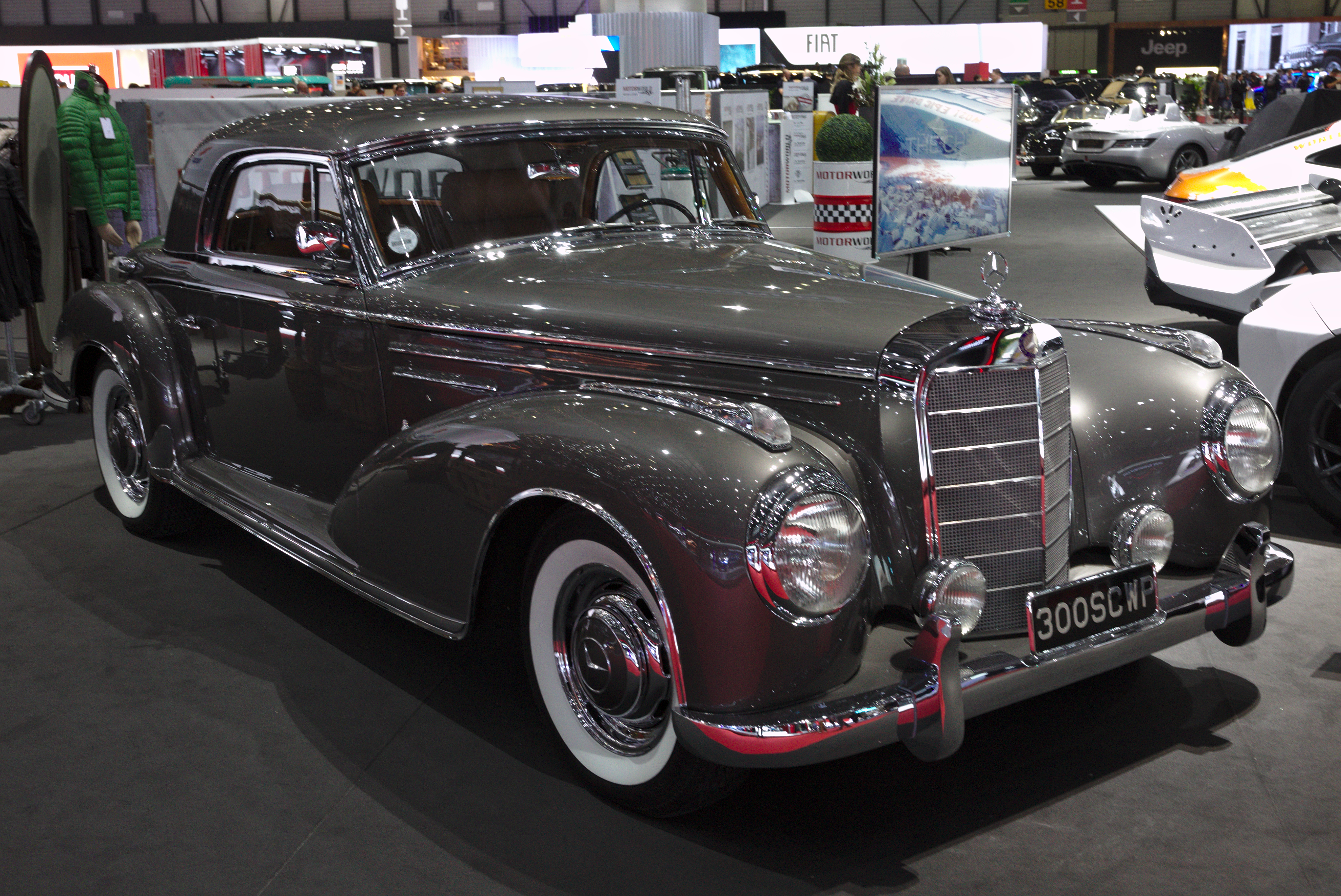 Mercedes-Benz 300 Sc at Geneva Motor Show 2019